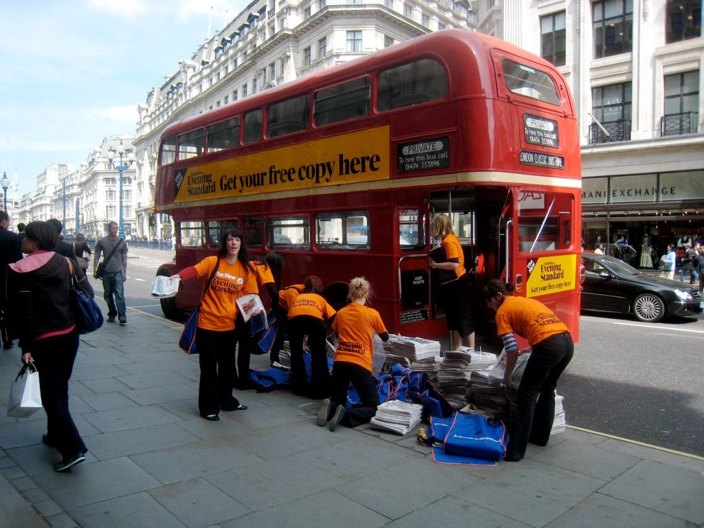 A Routemaster bus of The London Classic Bus Hire Company (a division of Redroute Buses, Northfleet), being used to distribute free copies of the Evening Standard newspaper. It's probably RML2445.